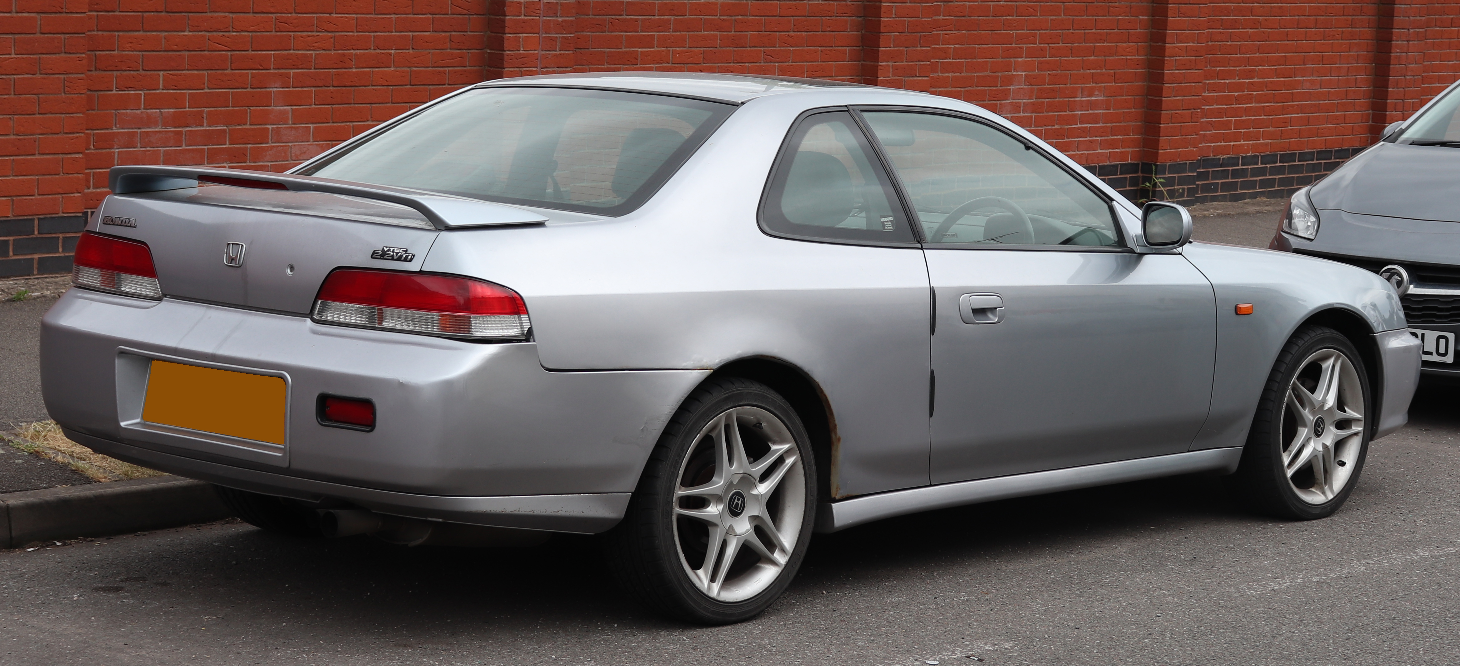 1998 Honda Prelude VTi Automatic 2.2 Rear Taken in Leamington Spa